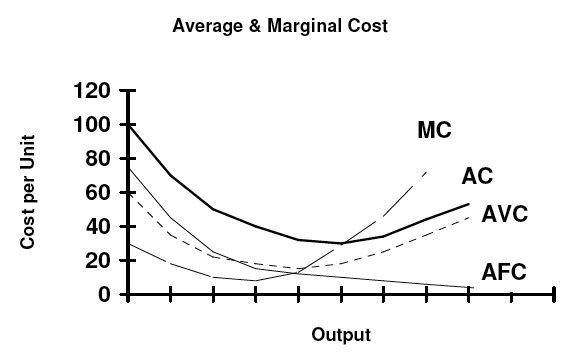 short run cost curves pc industry